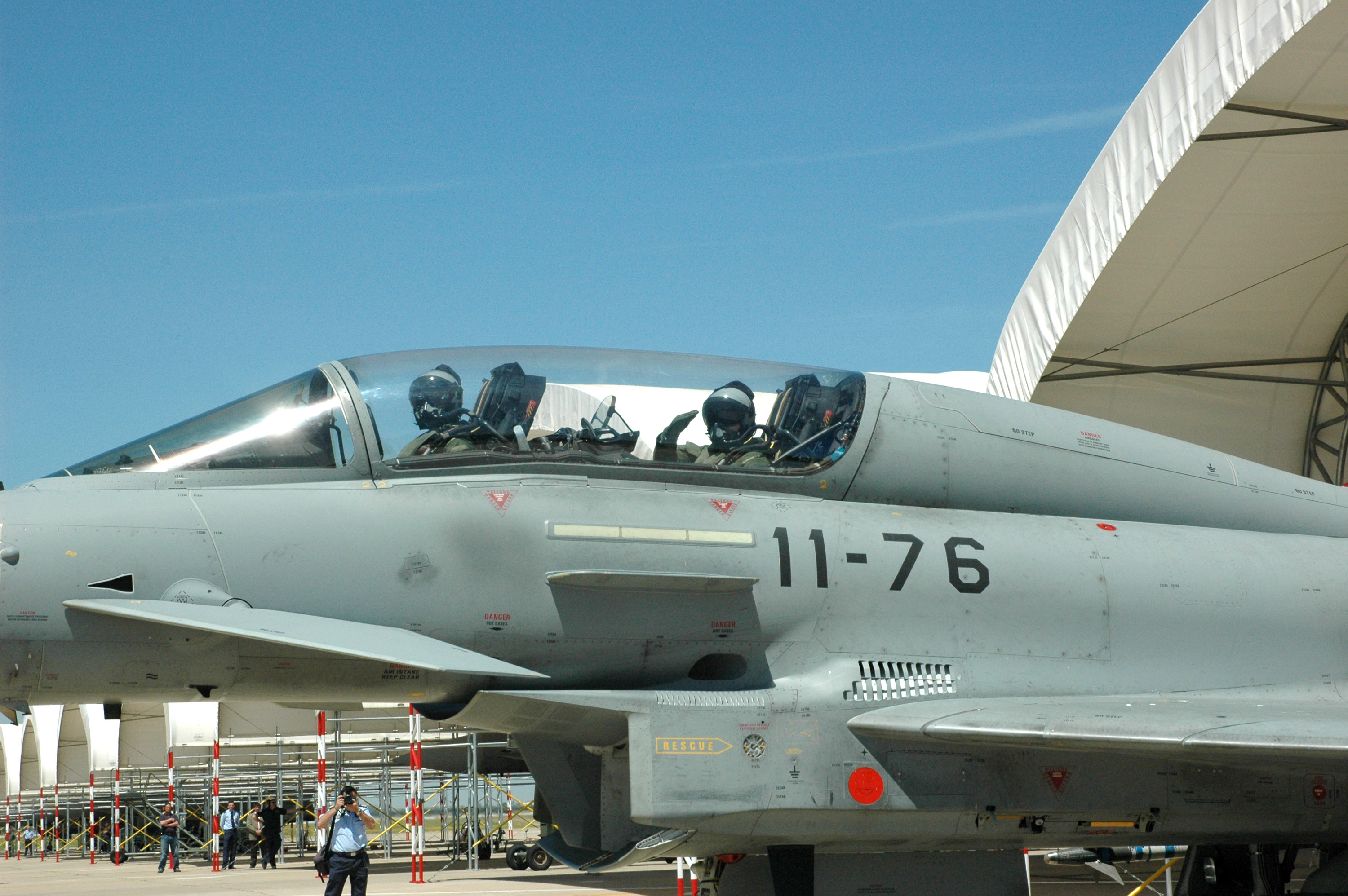 Gen. William T. Hobbins receives a three-ship orientation flight in a Spanish EF-2000 Eurofighter May 11 at Moron Air Base, Spain. During his trip, General Hobbins toured the 11th Combat Wing and visited with Spanish air force members to discuss NATO and U.S. Air Forces in Europe topics, as well as met with leadership from the 712th Air Base Group. General Hobbins is the USAFE commander. (U.S. Air Force photo/Maj. Jay Sabia)